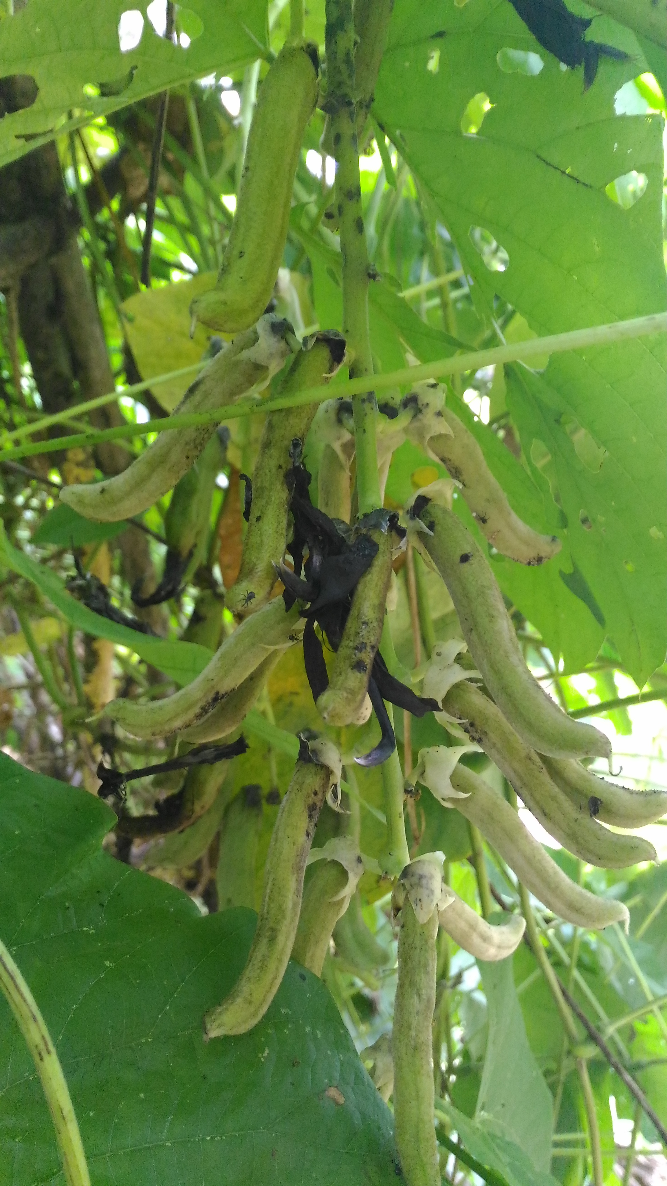 Soybean_soyabean_fruits